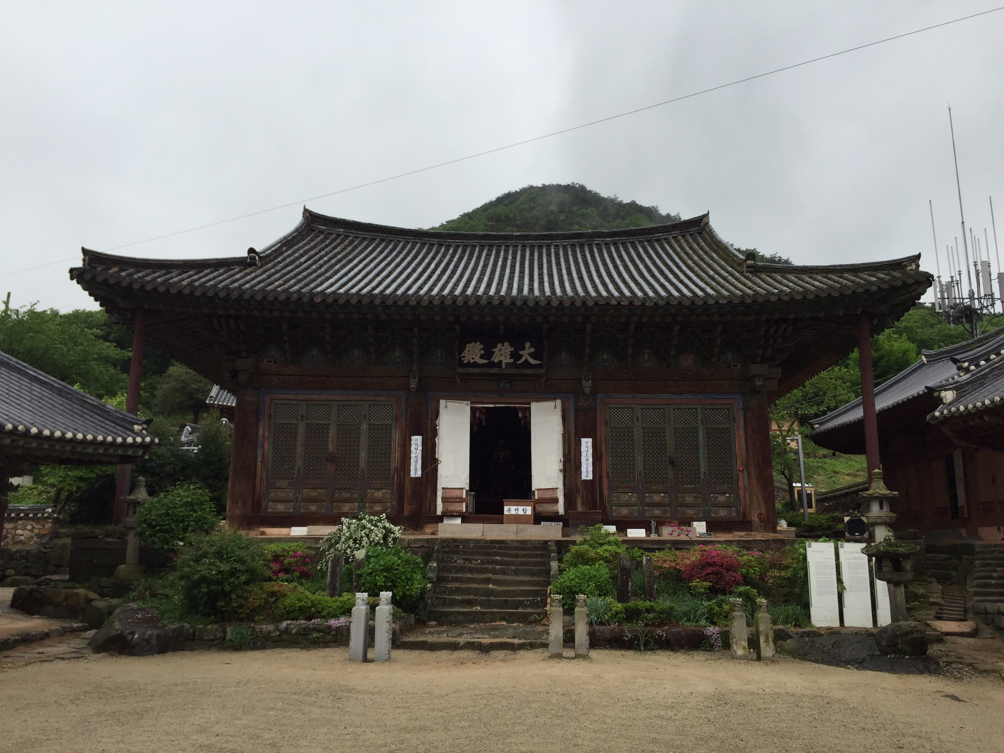 The Daeungjeon of Heung-guksa temple at Yeosu, Korea